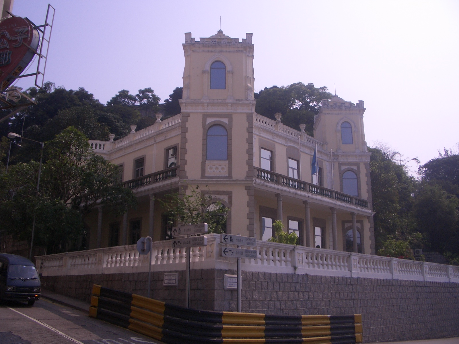 United Nations University International Institute for Software Technology